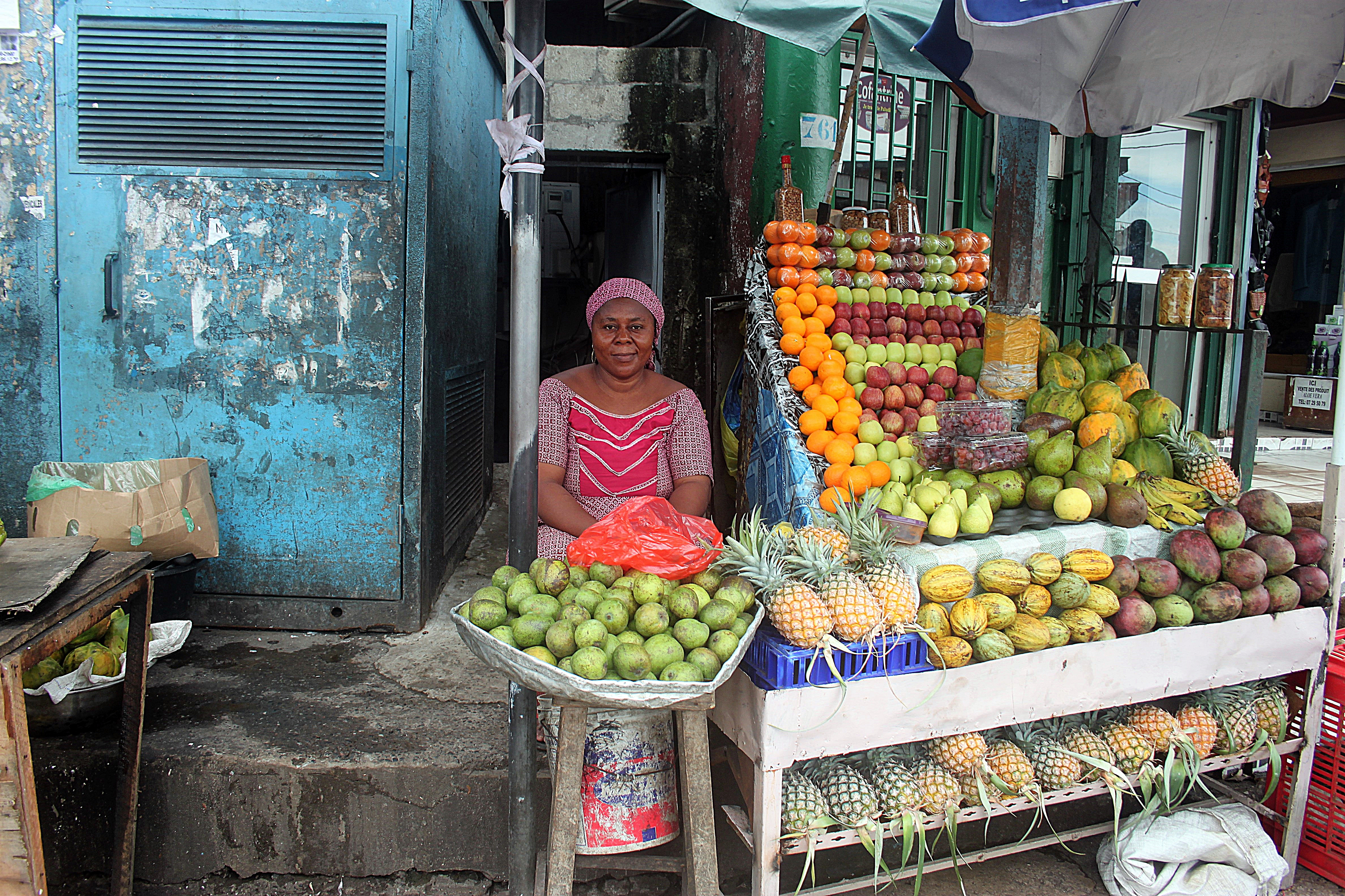 étale de vente de fruit tropicaux au carrefour Léon Mba à Libreville. This is an image of "African people at work" from Gabon